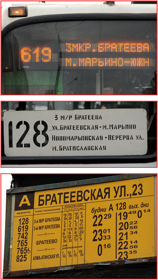 Buses to Brateyevo district in Moscow.